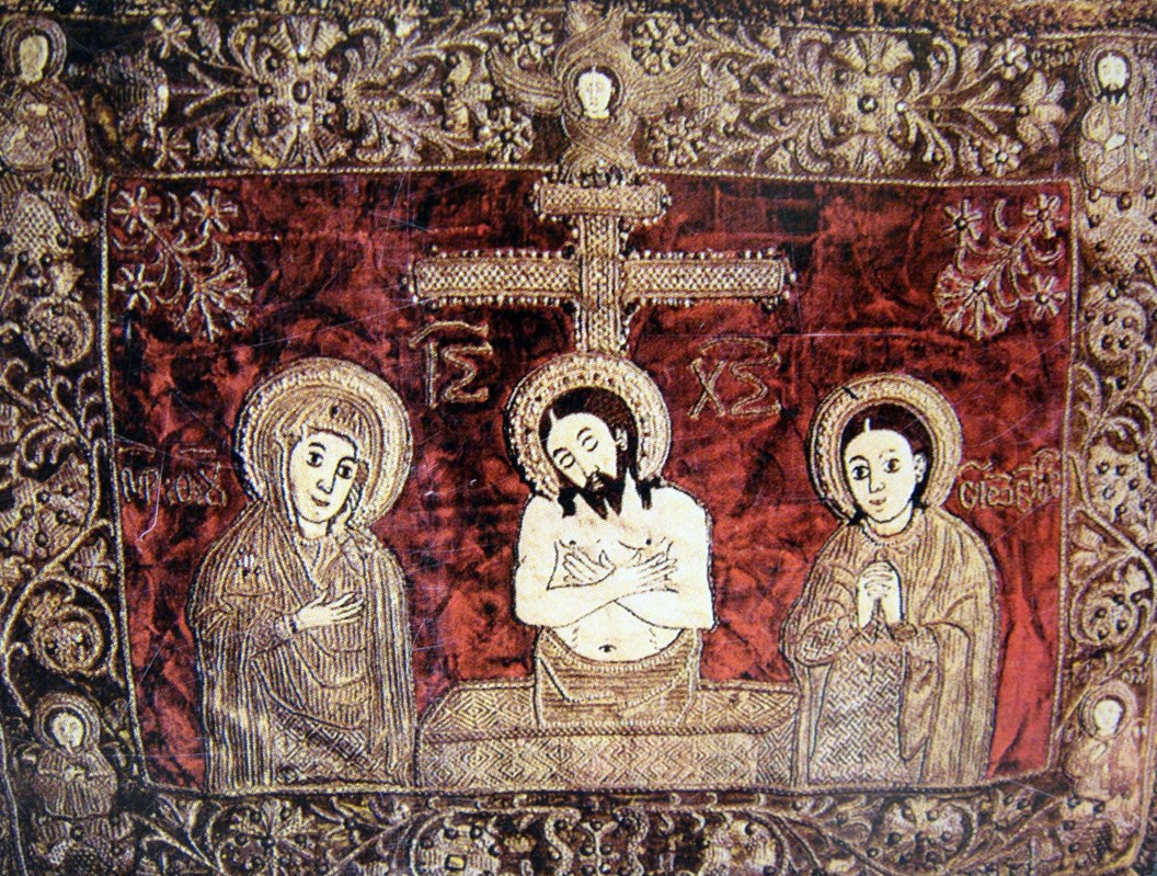 Vishivka Marii Magdalini Mazepi.